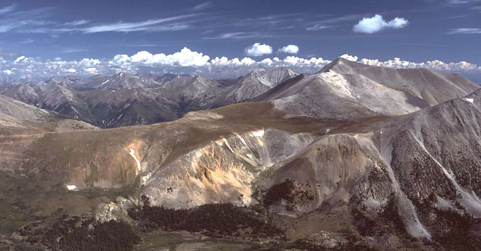 The view north from the summit of Mt. Shavano, with Mt. Antero at center-right.